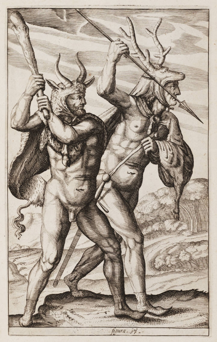 Plate 17 from Philip Clüver's Germania Antiqua (1616)